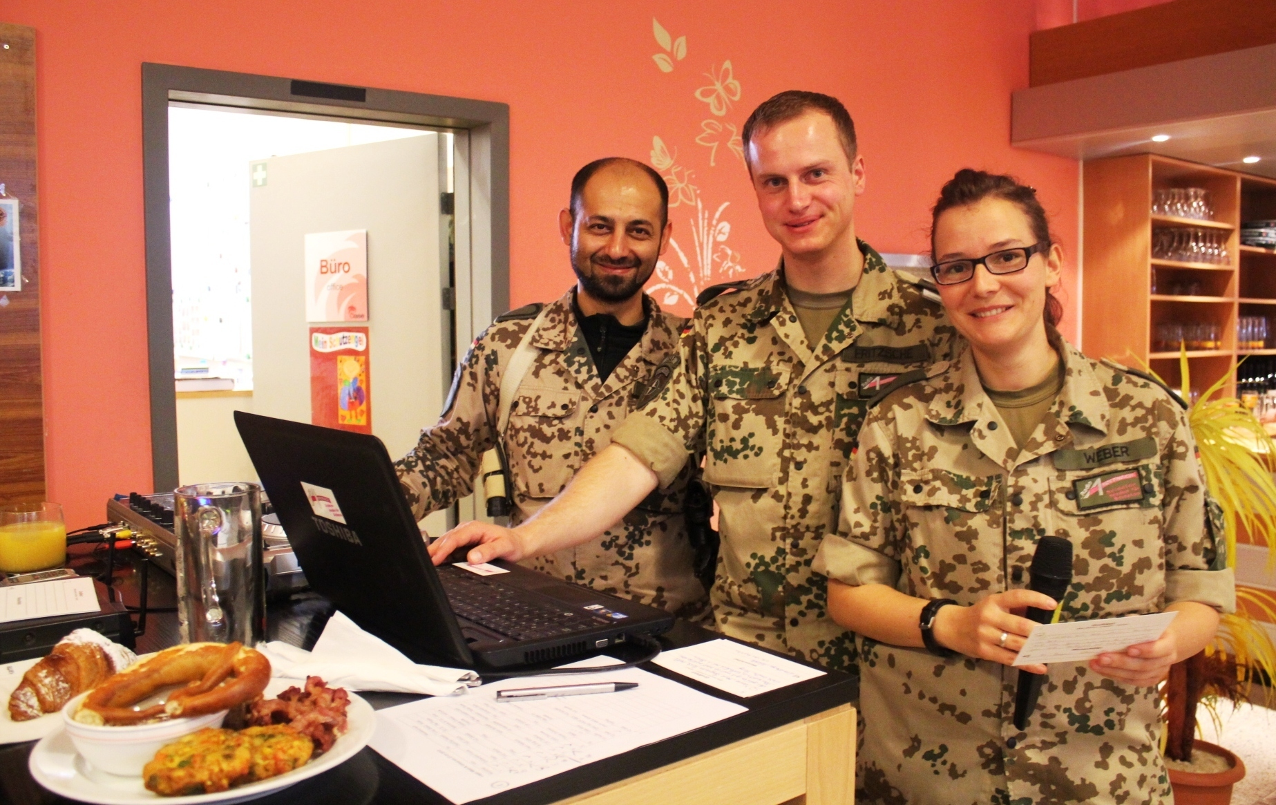 Radio Andernach (German Armed Forces) provides news, information and music to troops assigned to northern Afghanistan. German army Unteroffizier Deler A., Stabsfeldwebel Andrè Fritzsche and Leutnant Katrin Weber host a live show the last Sunday of every month at the OASE Restaurant on NATO Base Camp Marmal.